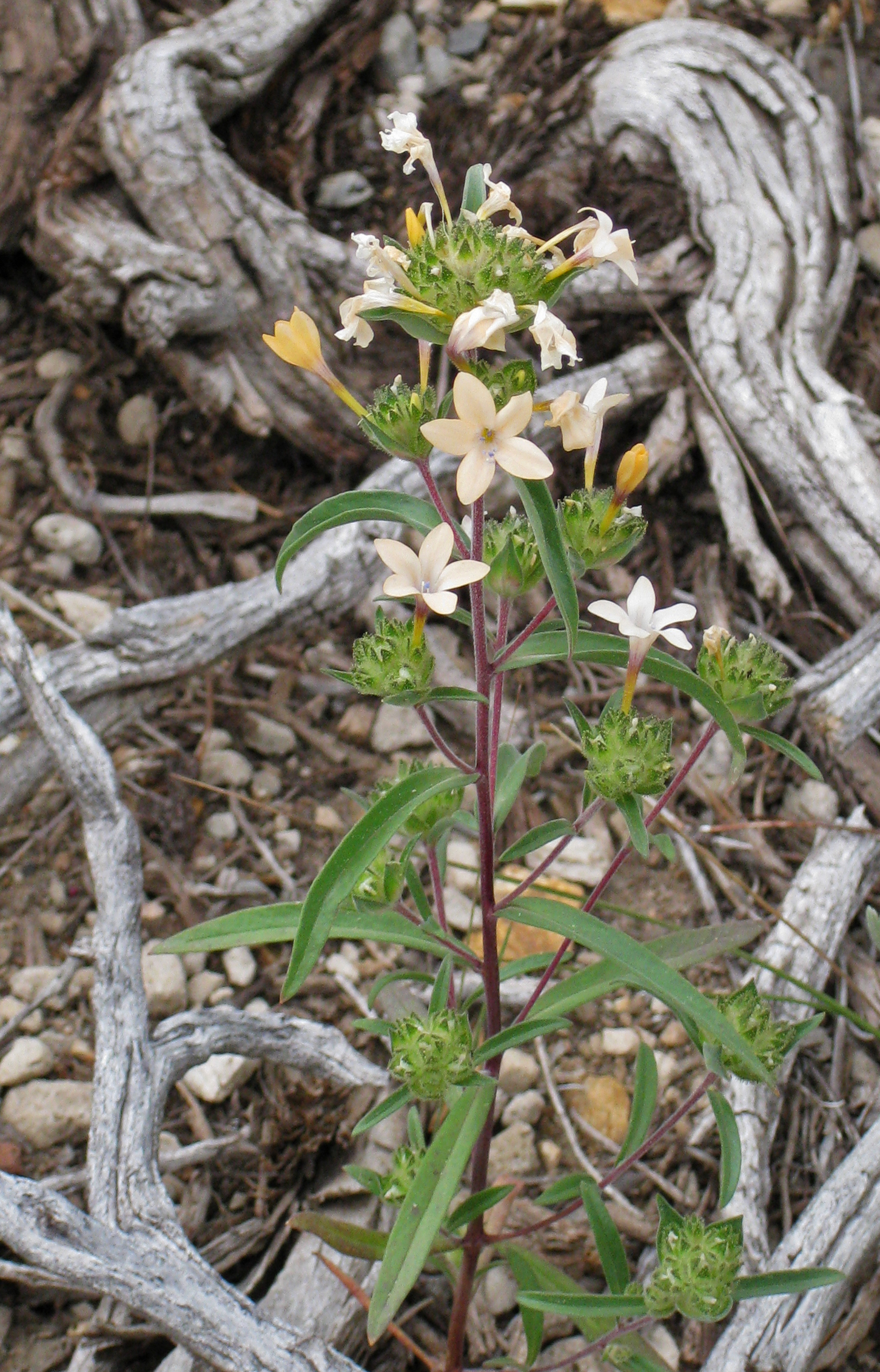 Grand collomia (Collomia grandiflora) plant, in flower, framed by gray branches. Budding flower heads are in the axils of the pointed, alternate leaves. At 9,400 ft (2,900 m) above Minaret Vista in Inyo National Forest, Sierra Nevada, California.